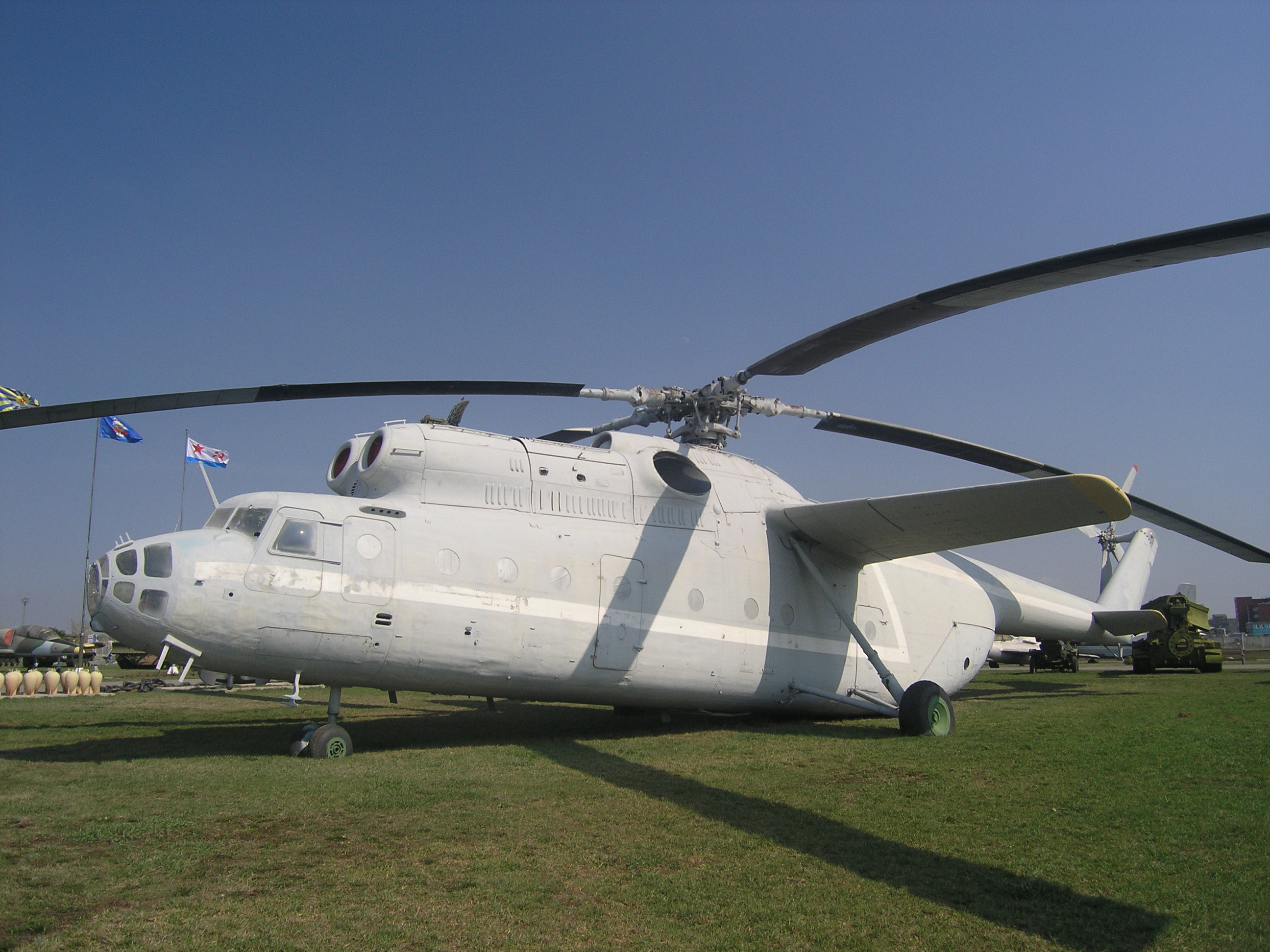 Mi-6, technical museum, Togliatti, Russia